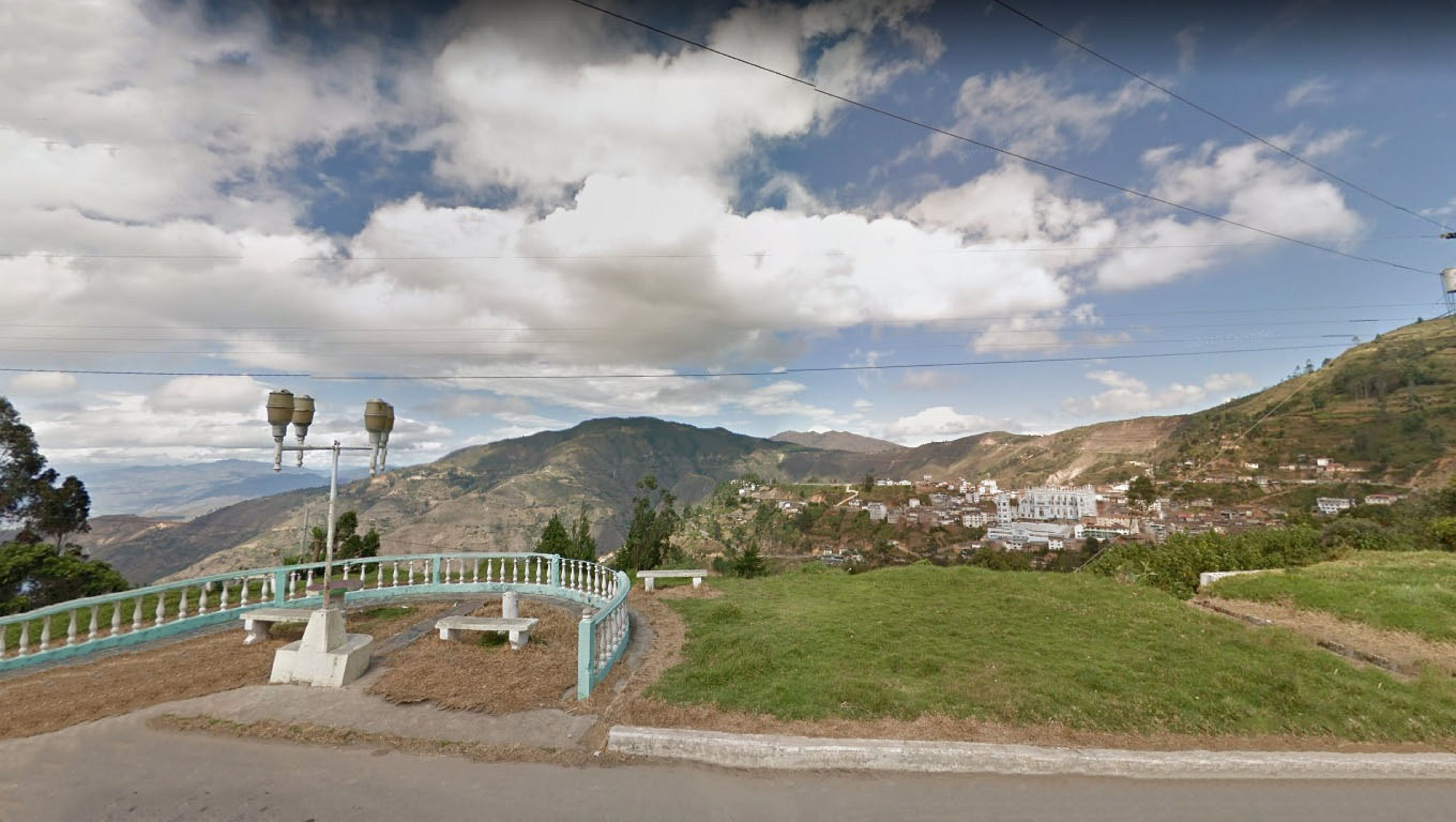 Parish of the Swan in Ecuador.